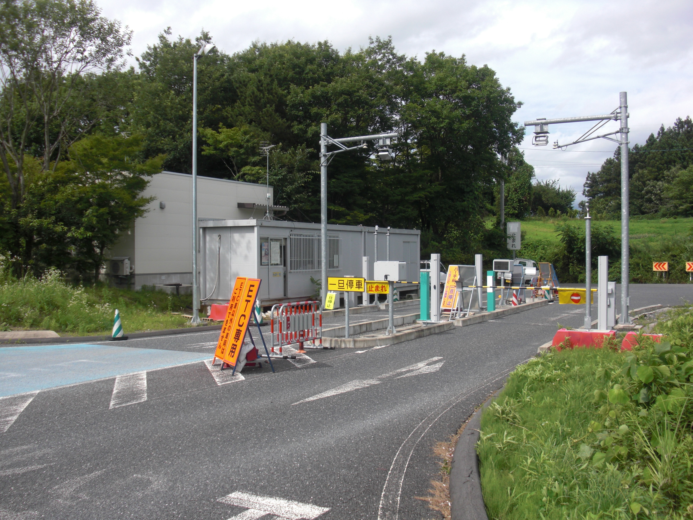 This is the Tohoku Expressway Chojahara Smart Interchange in Osaki, Miyagi, Japan.